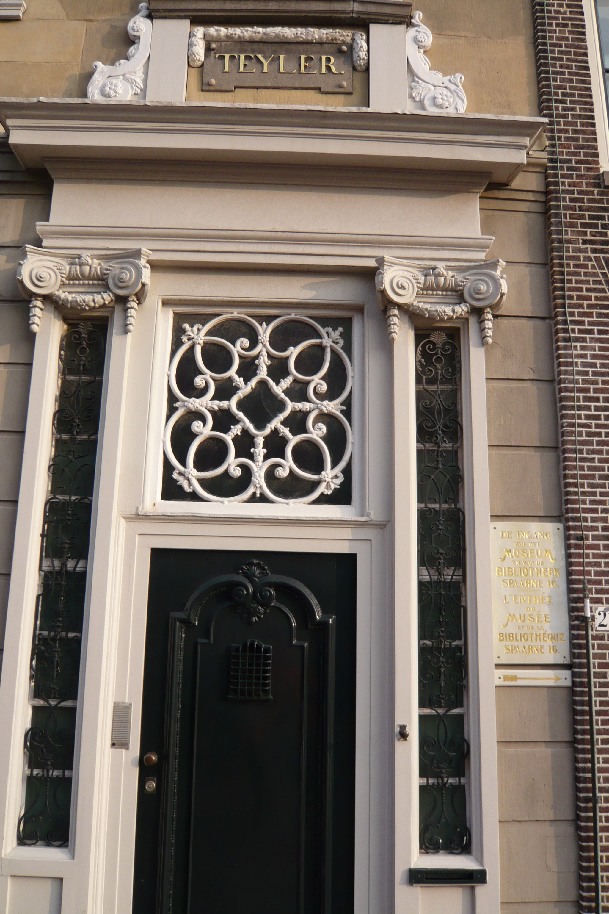 Old entrance to Teyler's Museum in Haarlem on the Dam straat, and the original home entrance of Pieter Teyler van der Hulst whose legacy gives the museum its name. Now used as entrance to the 'gentleman's room' attached to the museum in the back (current 'Front' door of the museum is Spaarne 16), and for occasional tours of the private house. Pieter Teyler van der Hulst who lived here until his death in 1778, had already opened his extensive library to the public by forming a drawing club known as the Teeken-academie. After his death the house was used as a place to show his collection of art and books. The front of the house is clad in sandstone, to set it off against the neighboring homes.